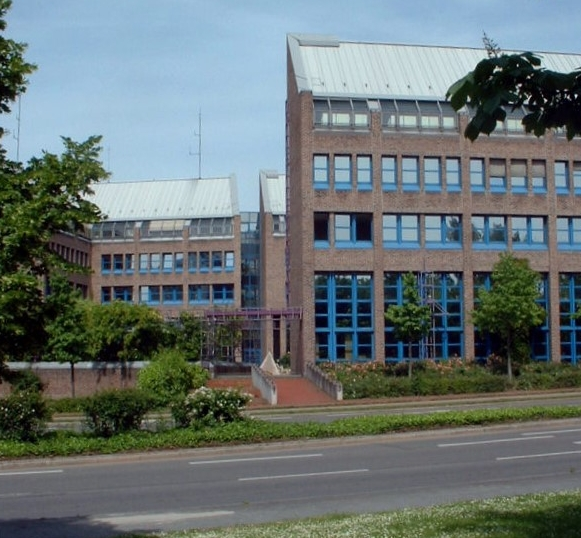 view of Ludwigshafen, Germany